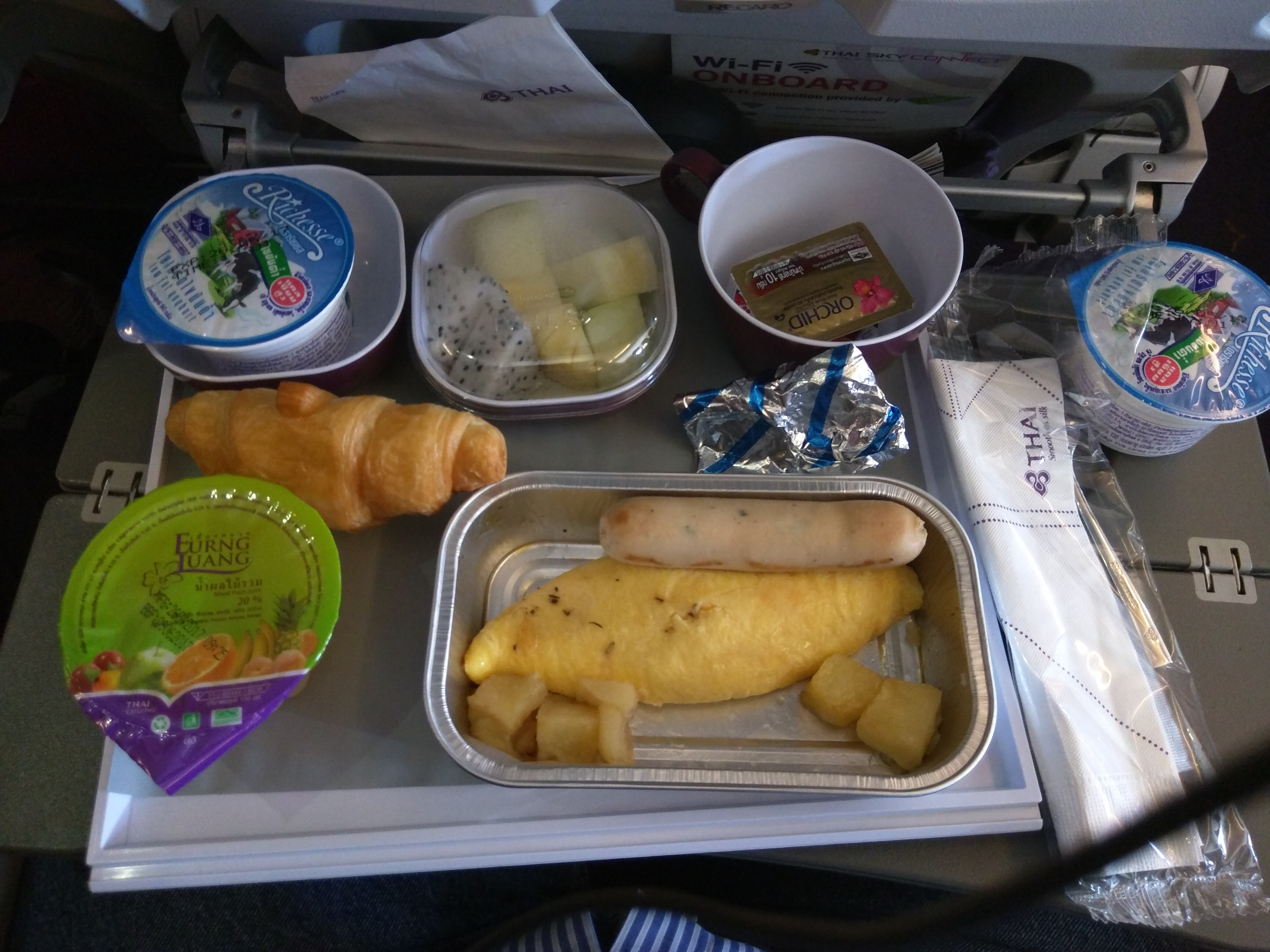 Thai Airways International in-flight meals - Breakfast